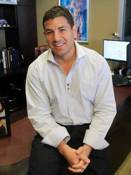 Brandon Steven is a successful entrepreneur, businessman, capital investor, and poker player who lives with his wife and their six children in Wichita, Kansas. He is the owner and co-owner of several award-winning car dealerships in the Wichita area. He is the co-owner of three hockey teams, all of which play in the ECHL. He is also the co-owner of Genesis Health Clubs, which has 22 locations spread out through Kansas and Missouri. Leading with motivation, Brandon has a skill in bringing the most of his employees and empowering them to always dream bigger.